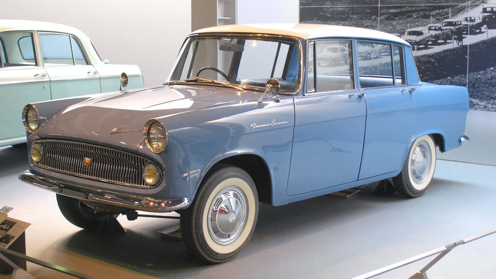 2nd generation Toyopet_Corona Model PT20